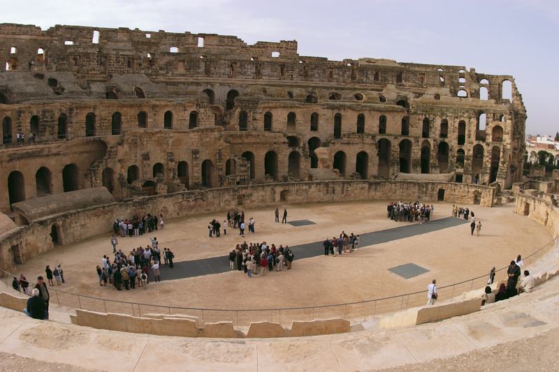 Arena of the amphitheatre of El Jem